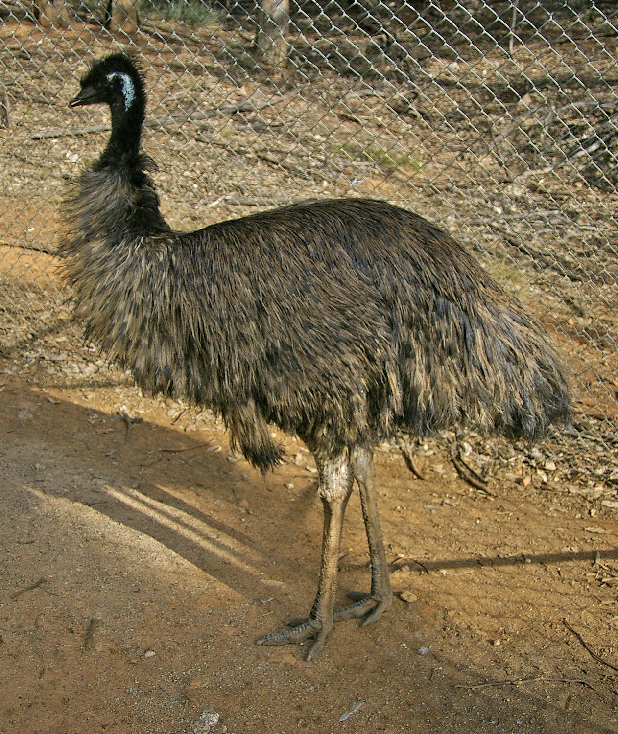 Dromaius novaehollandiae (Emu) at the Wagga Zoo in the Wagga Wagga Botanic Gardens.